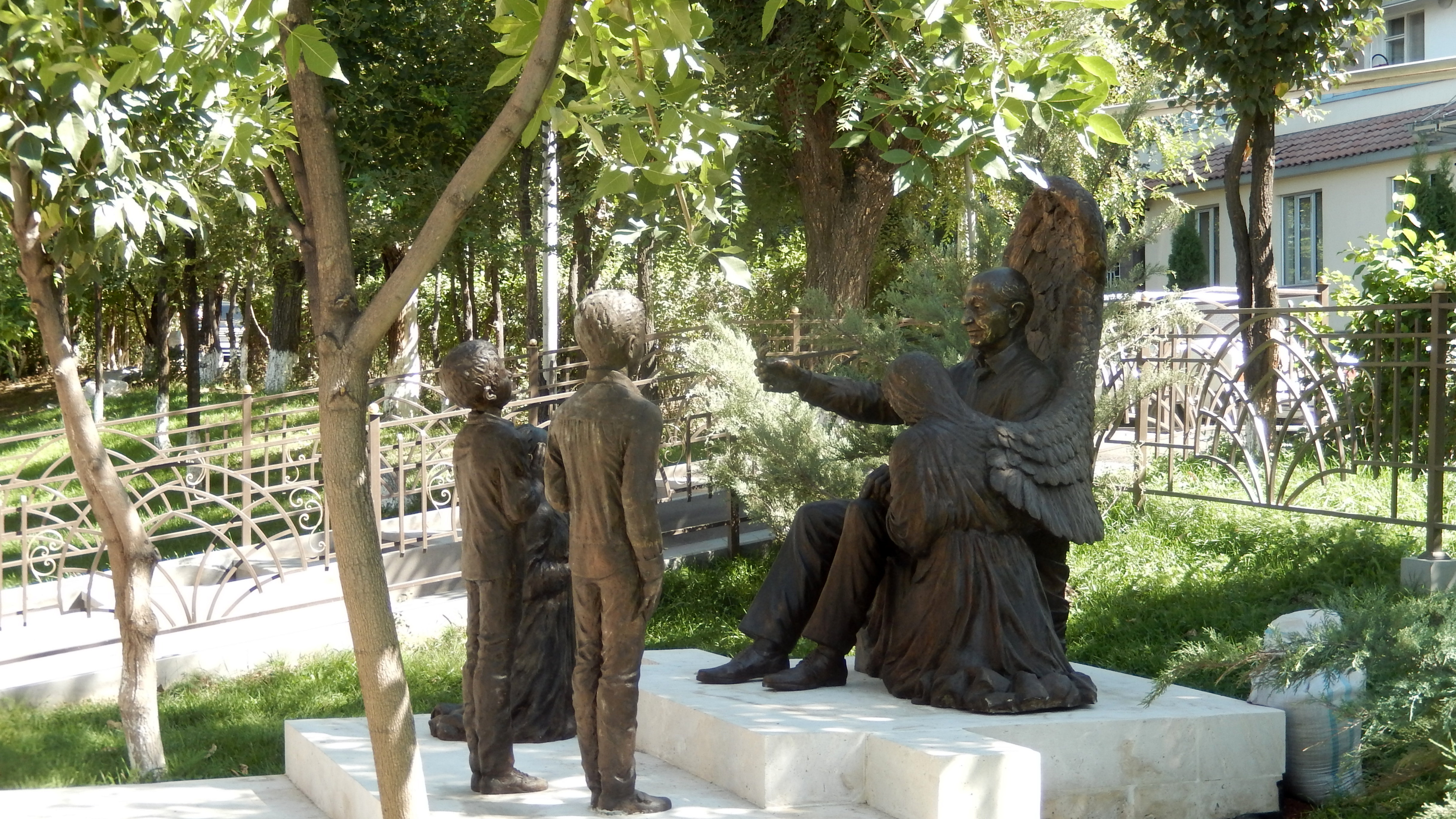 Karlos Yesayan Memorial in Nansen park